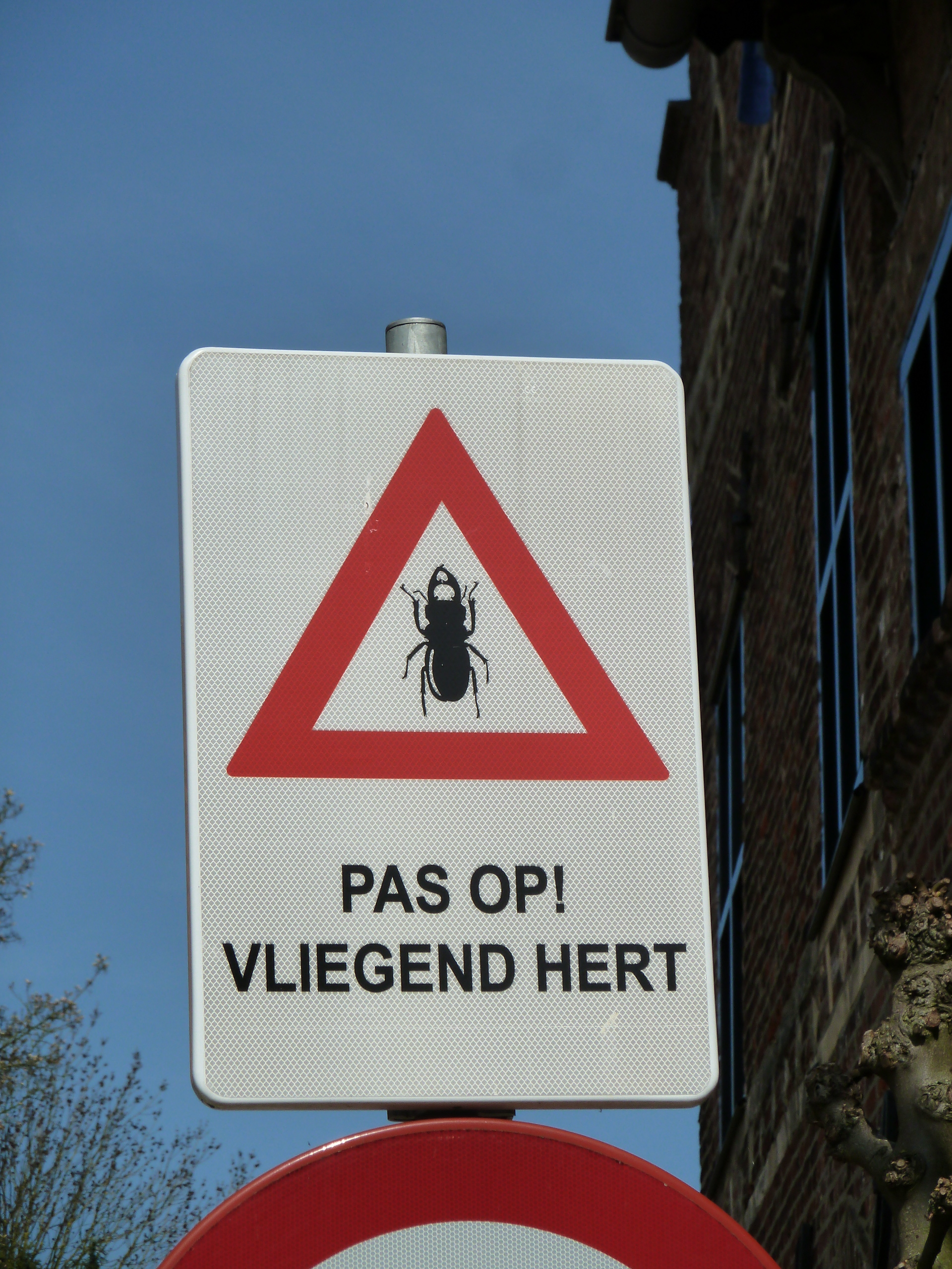 Traffic sign which warns for a Lucanus cervus, Schinnen, Limburg, the Netherlands